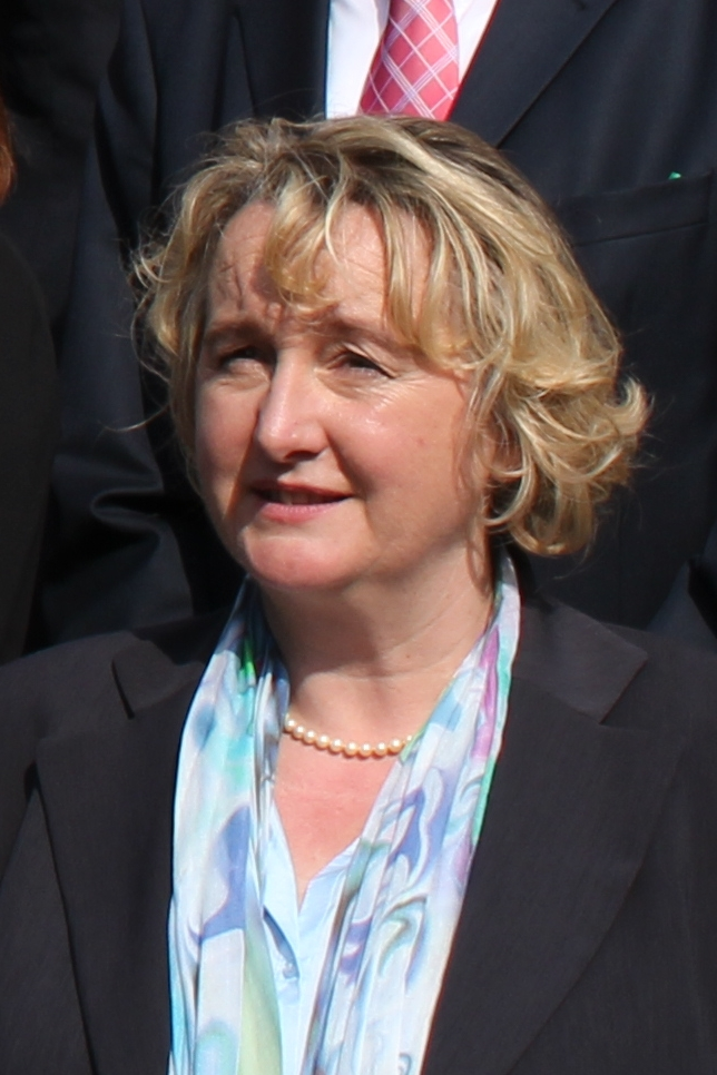 Theresia Bauer